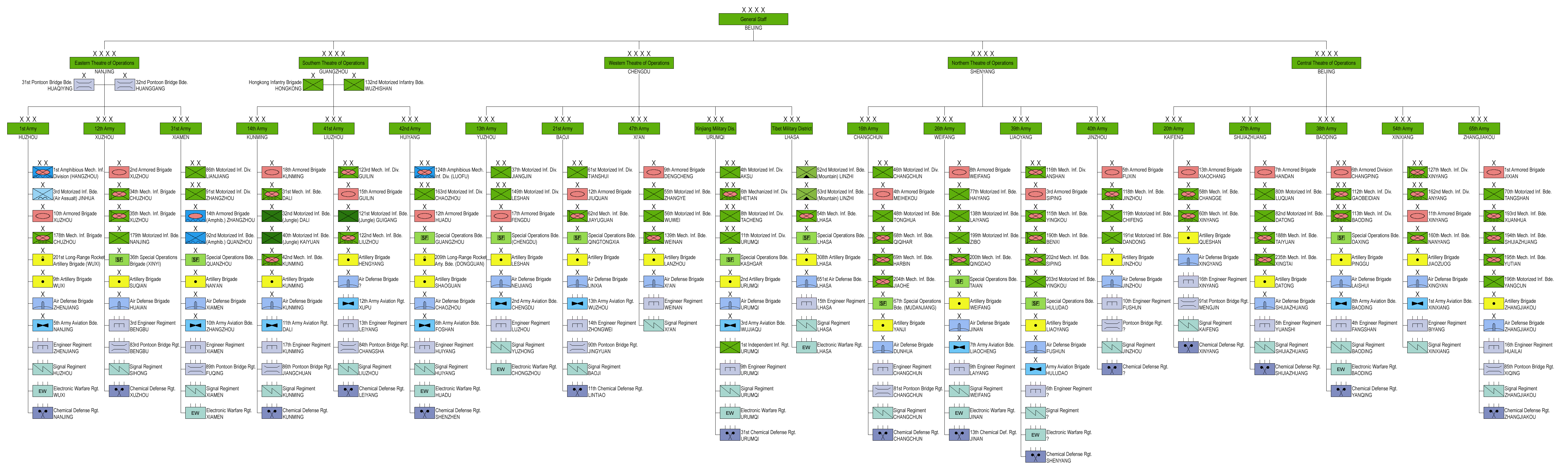 People's Liberation Army Ground Force Structure 2016